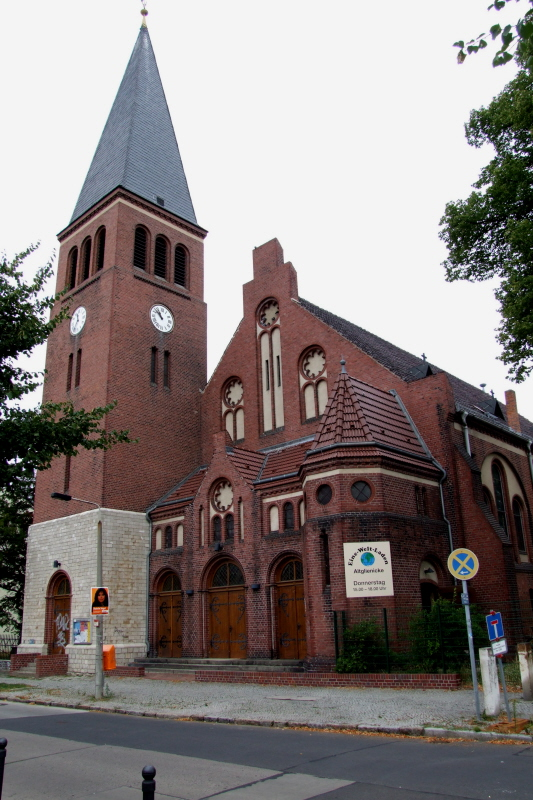 The parish church of Altglienicke, Treptow-Köpenick, Berlin.